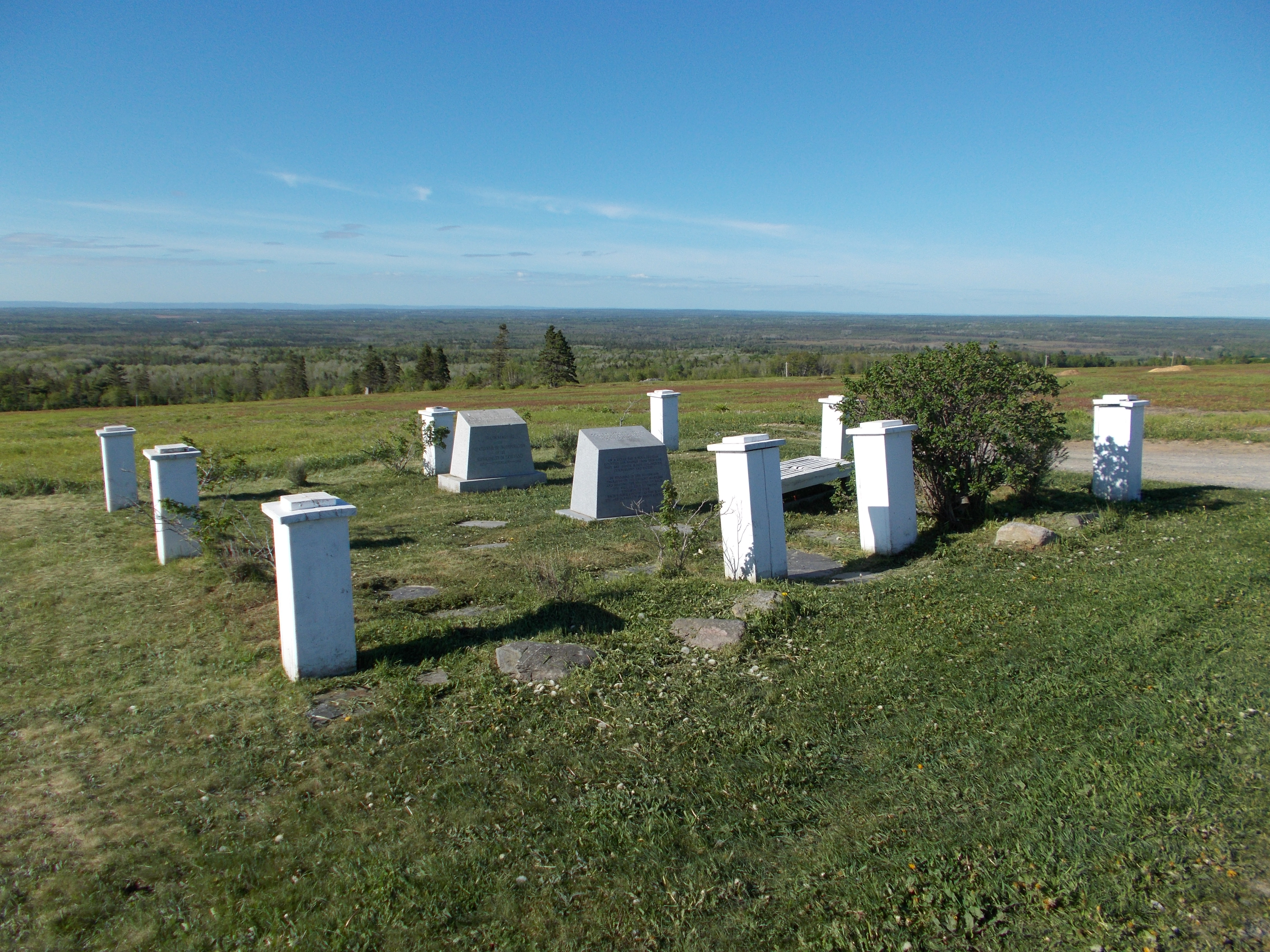 Scenic view from Court House Hill in Gore, Nova Scotia, showing the Court House Monument and parts of Colchester County in the far distance. Other information None